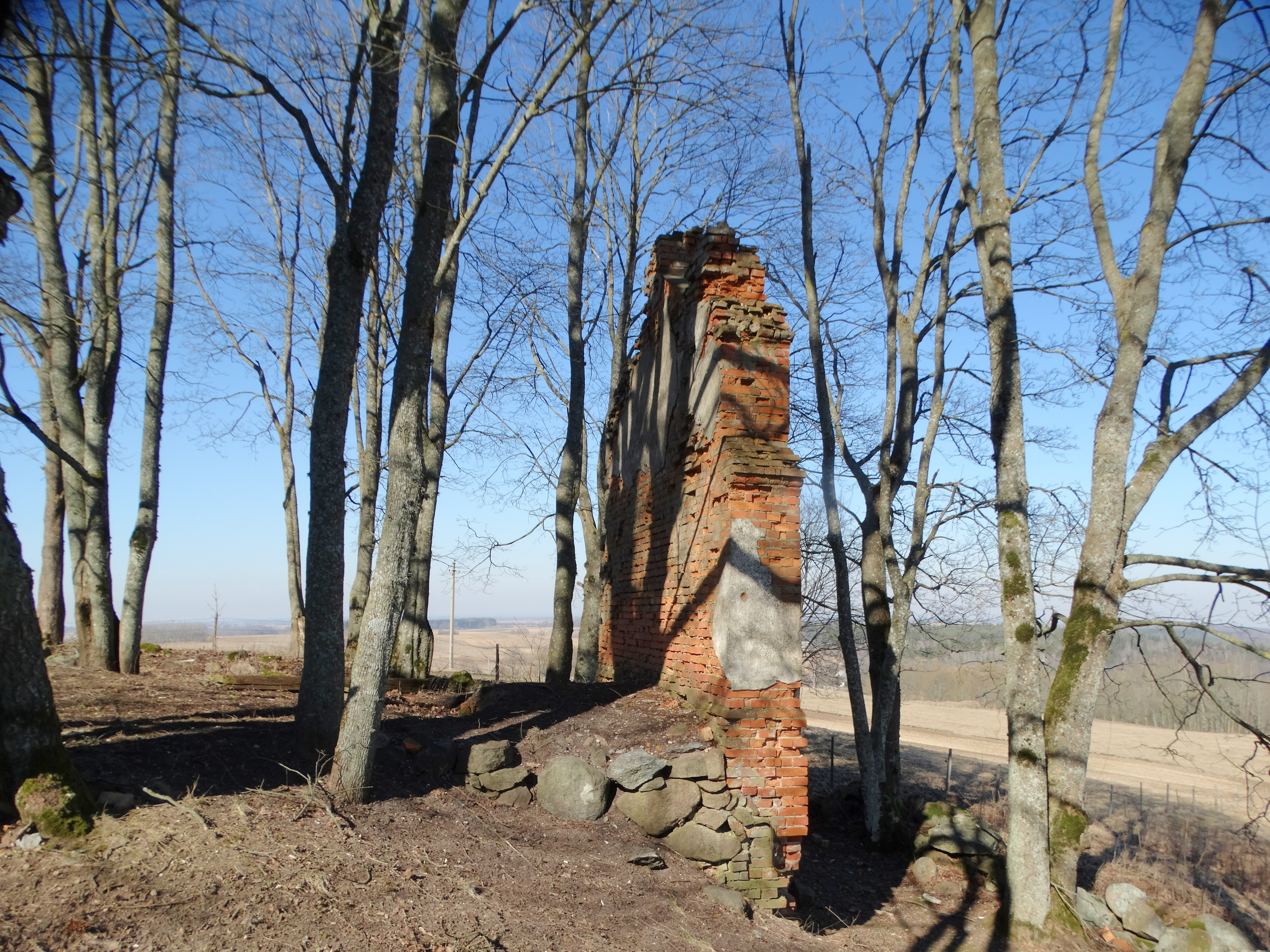 Funeral chapel ruins, Pakėvis, Kelmė district, Lithuania